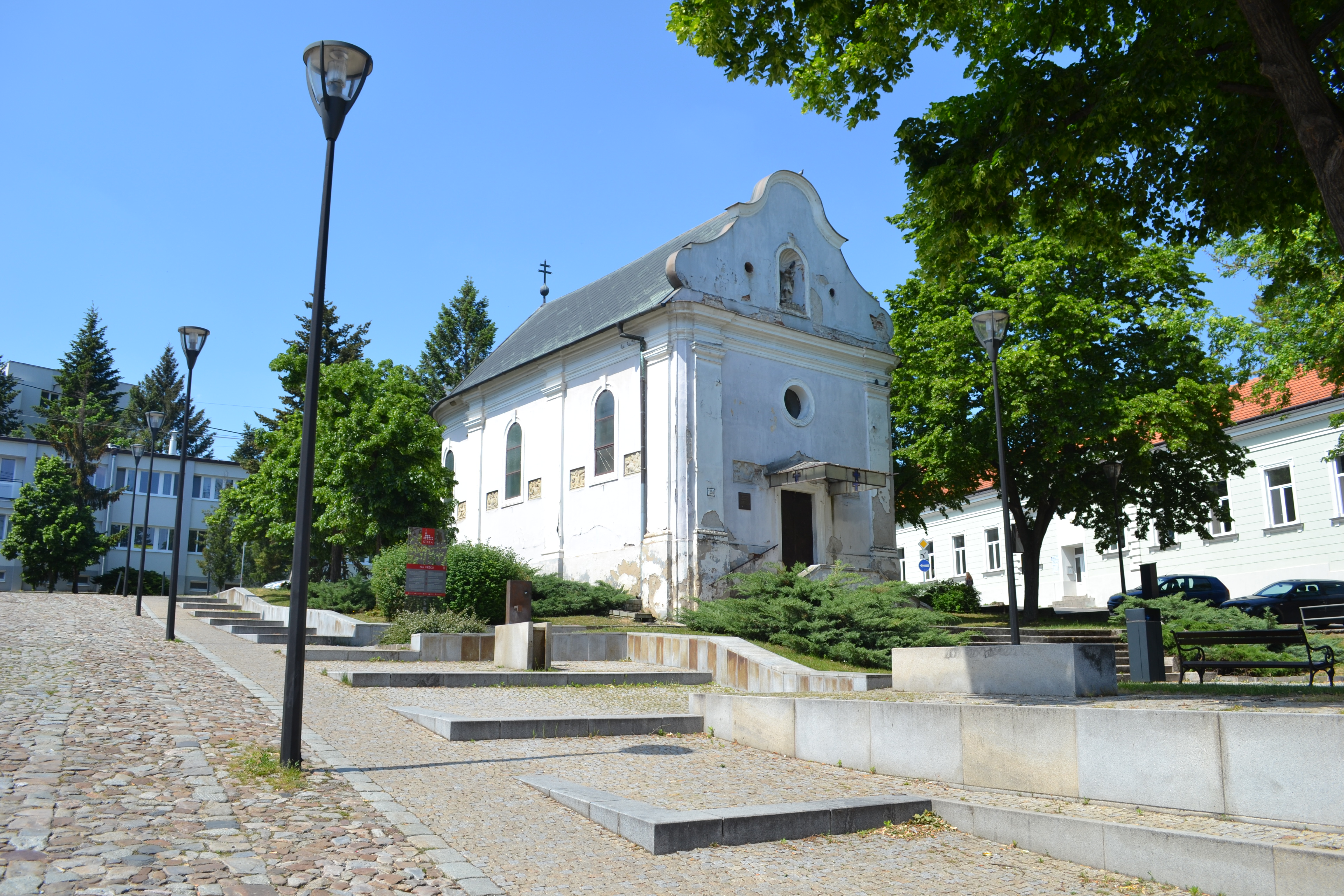 Chapel of St. Michael the Archangel in NitraSlovenčina: Kaplnka sv. Michala Archanjela v Nitre